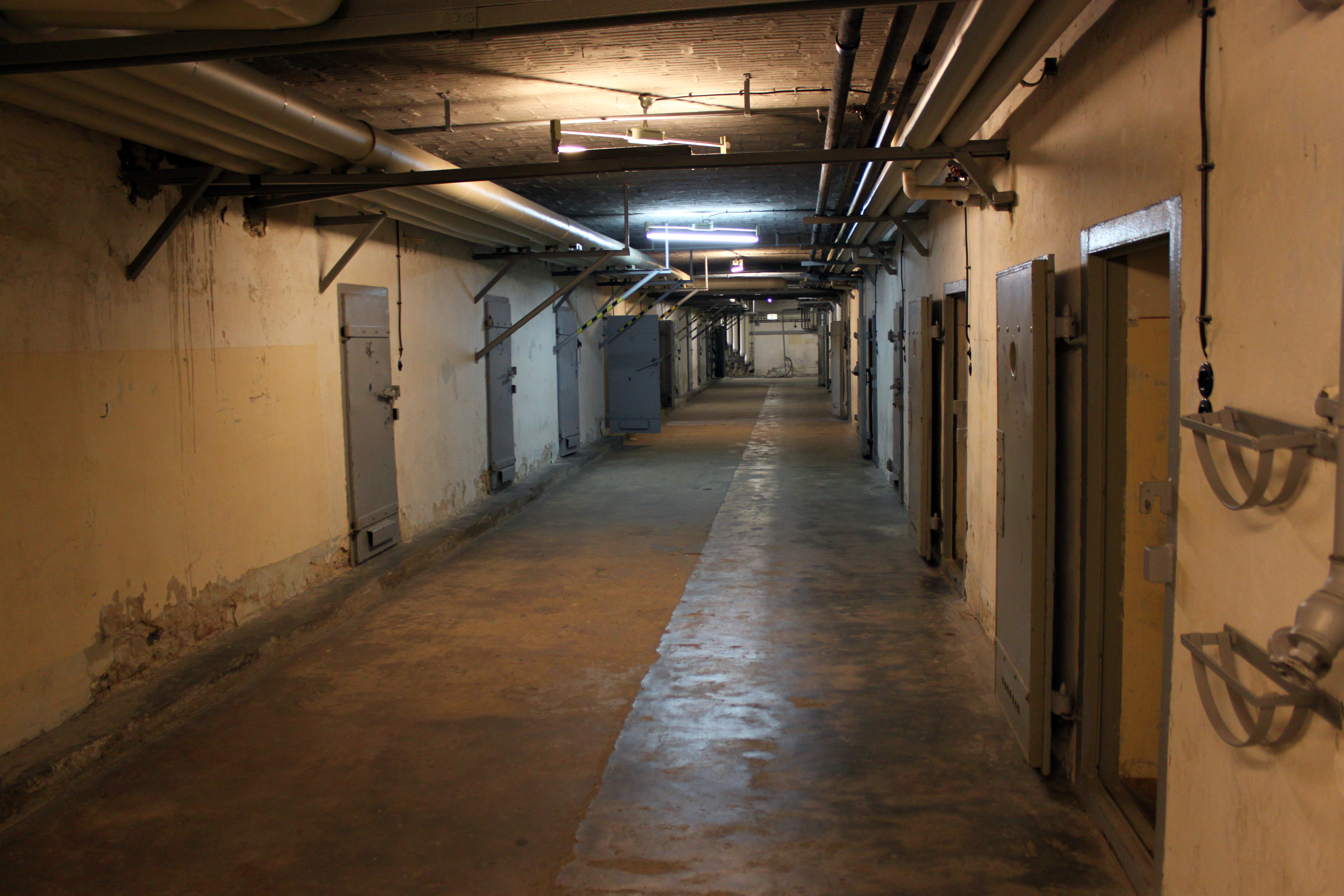 Memorial Berlin-Hohenschönhausen - a former Soviet special camp and remand prison of the Ministry for State Security - cells in the basement, so-called "submarine"